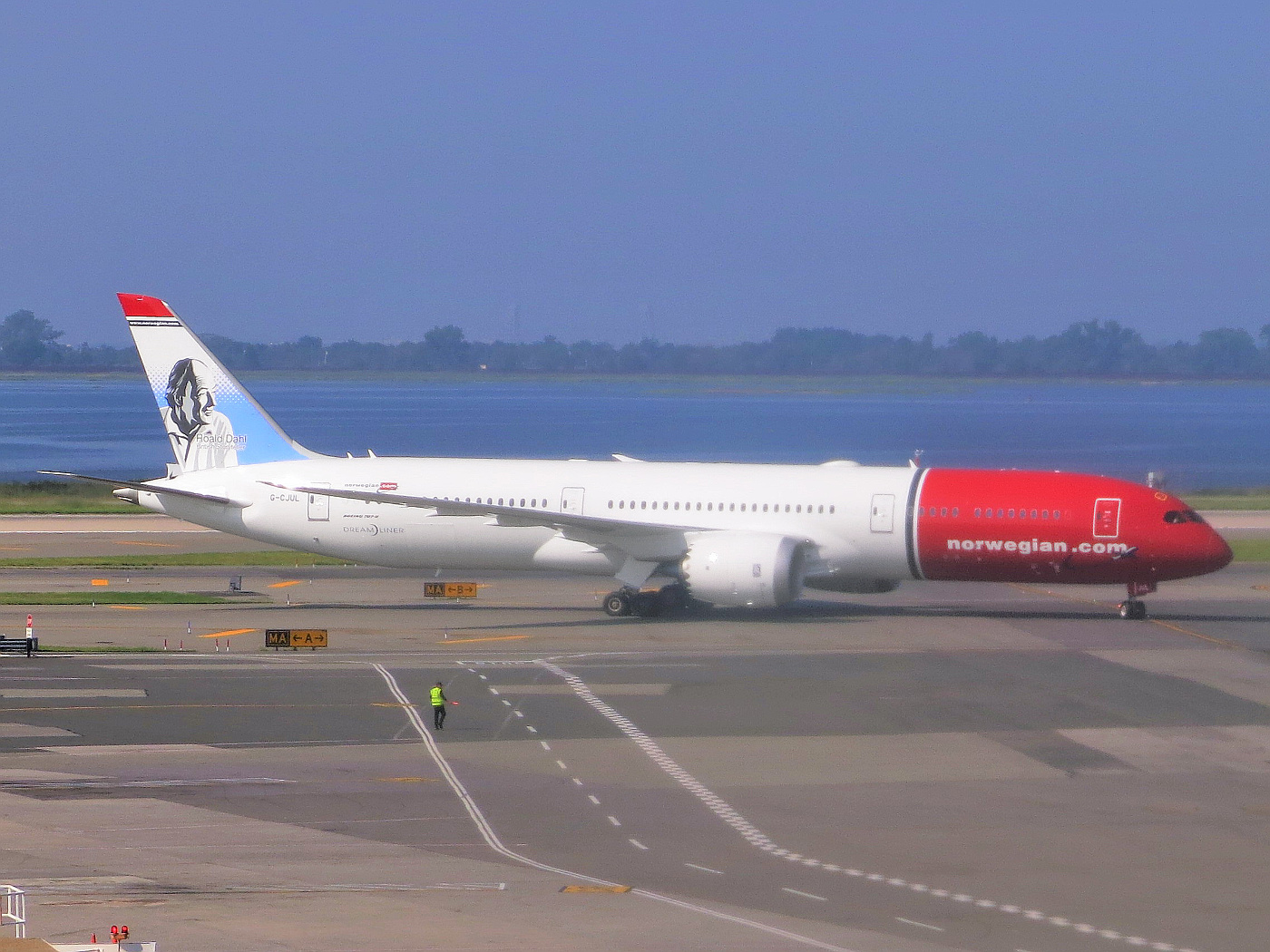 A Norwegian Air UK plane has arrived from London Gatwick Airport (LGW/EGKK) on the first Norwegian morning flight from Gatwick to JFK on Flight DY7013, and is turning in toward its gate from the taxiway.